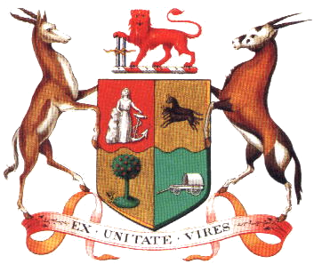 Coat of Arms of South Africa from 1910 to 1930.